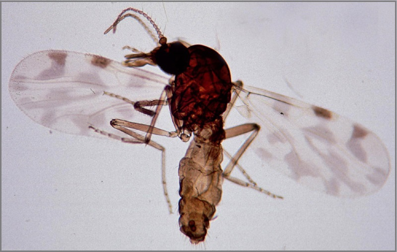 Photograph of a parasitic insect of domestic animals